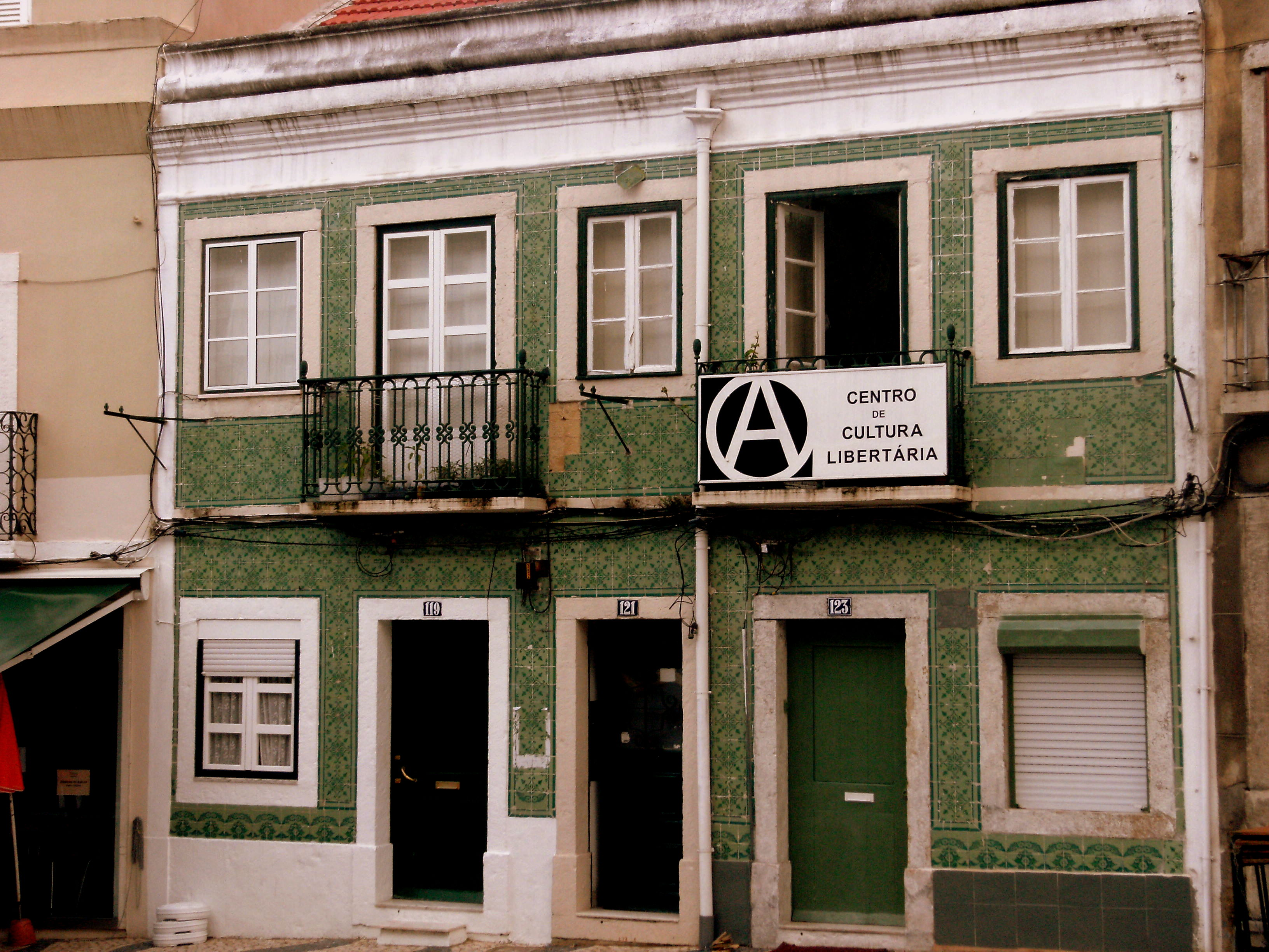 Almada & Cacilhas; 2012-10-26